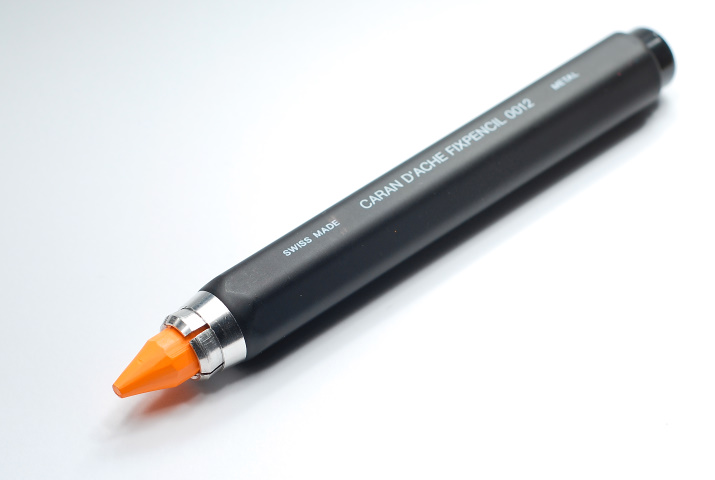 Caran d'Ache Fixpencil 0012